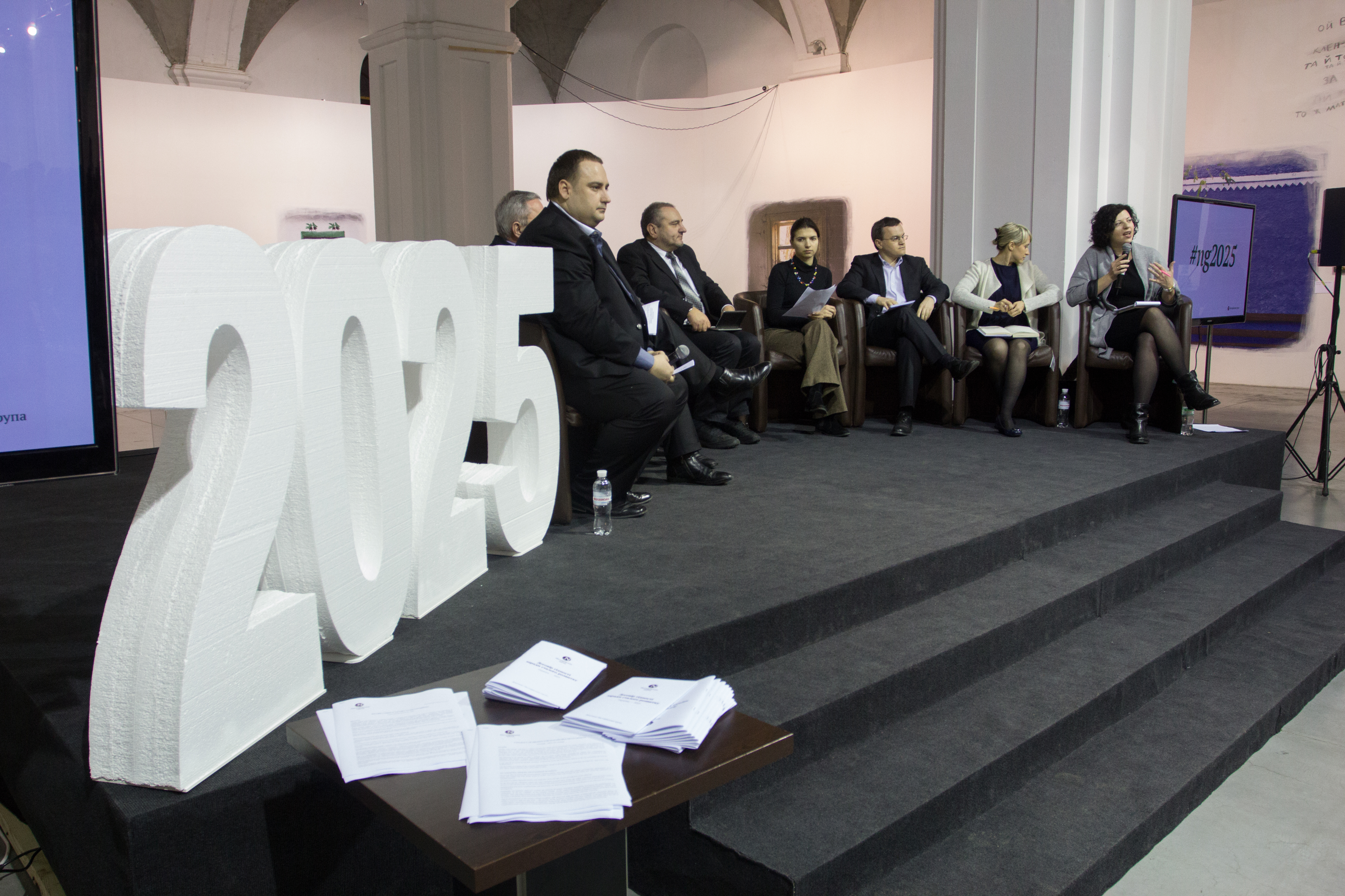 Members of the Nestor Group, an informal group of Ukrainian intellectuals, experts and civic activists, present their "Vision of Ukraine-2025" in Kyiv